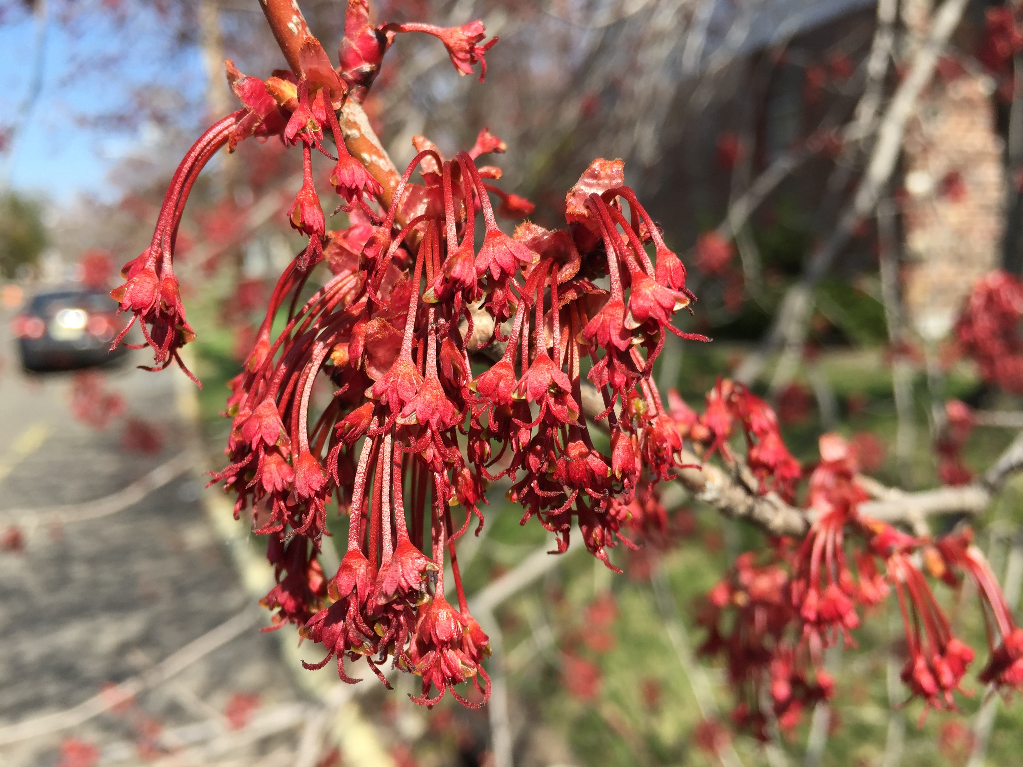 Female Red Maple flowers on Madison Avenue in Ewing, New Jersey